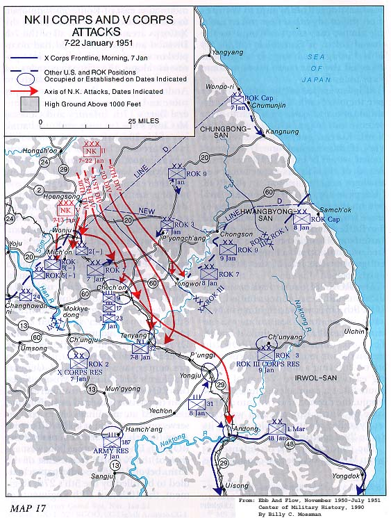 Map of the North Korean central corridor offensive, 7-22 January 1951